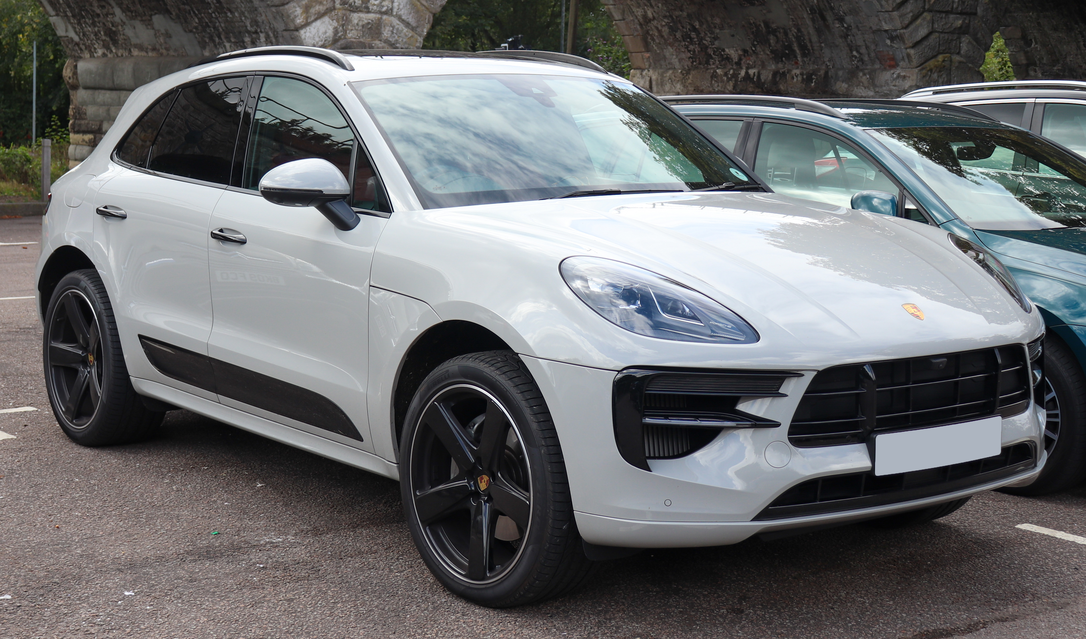 2019 Porsche Macan S S-A facelift 3.0 Front Taken in Leamington Spa